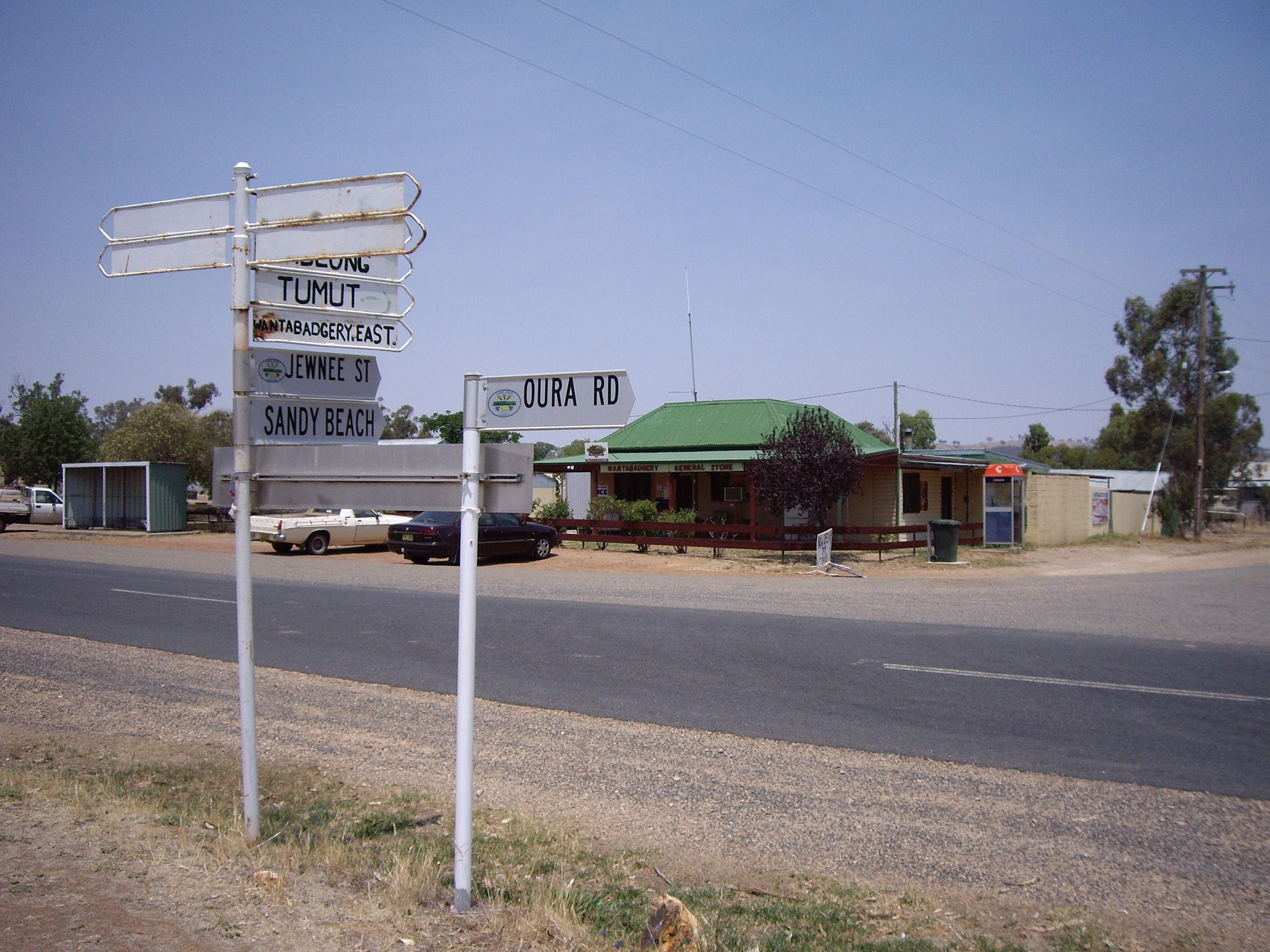 Wantabadery General Store